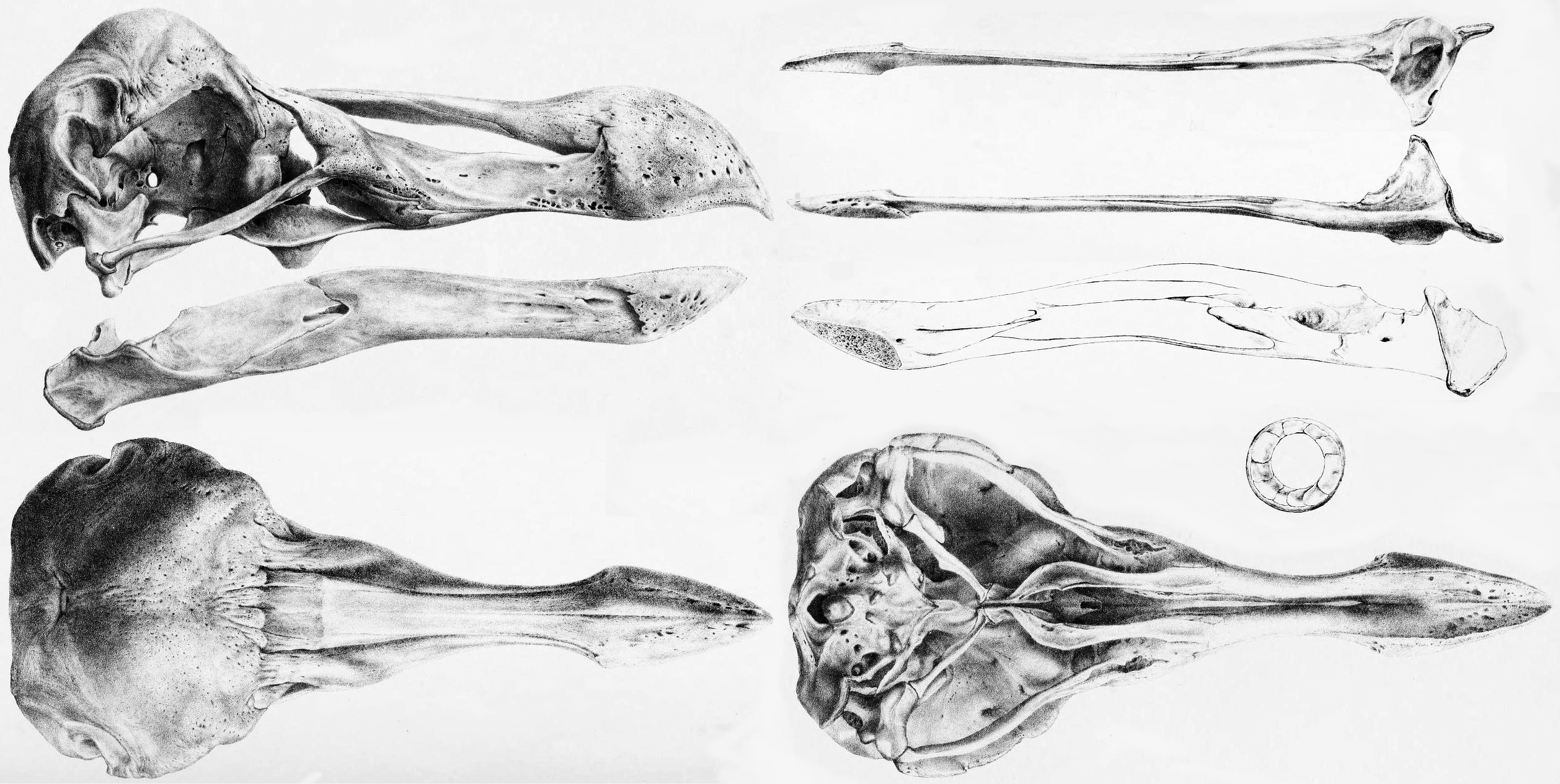 Skull of the Oxford Dodo specimen.